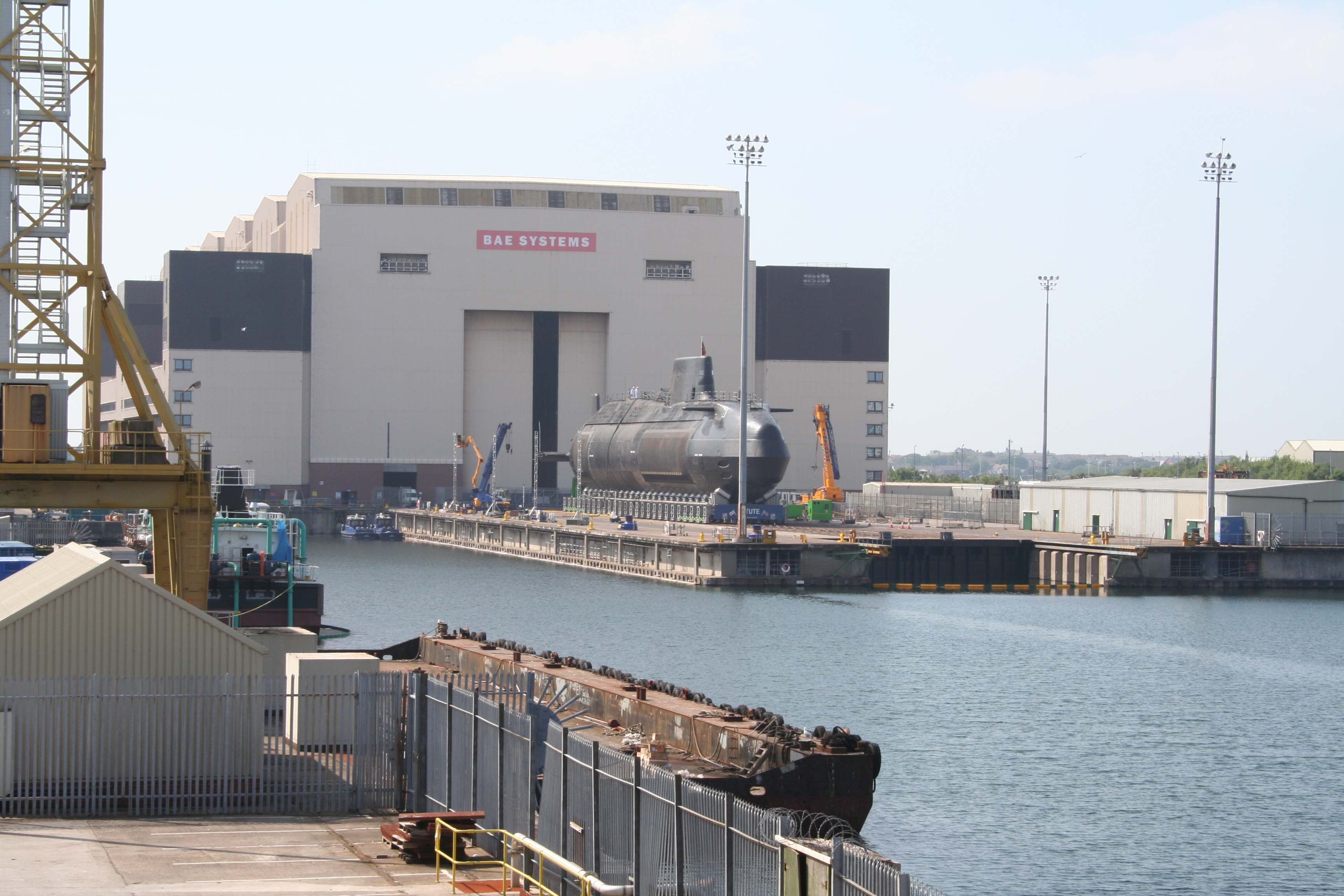 Astute on the shiplift after launch.